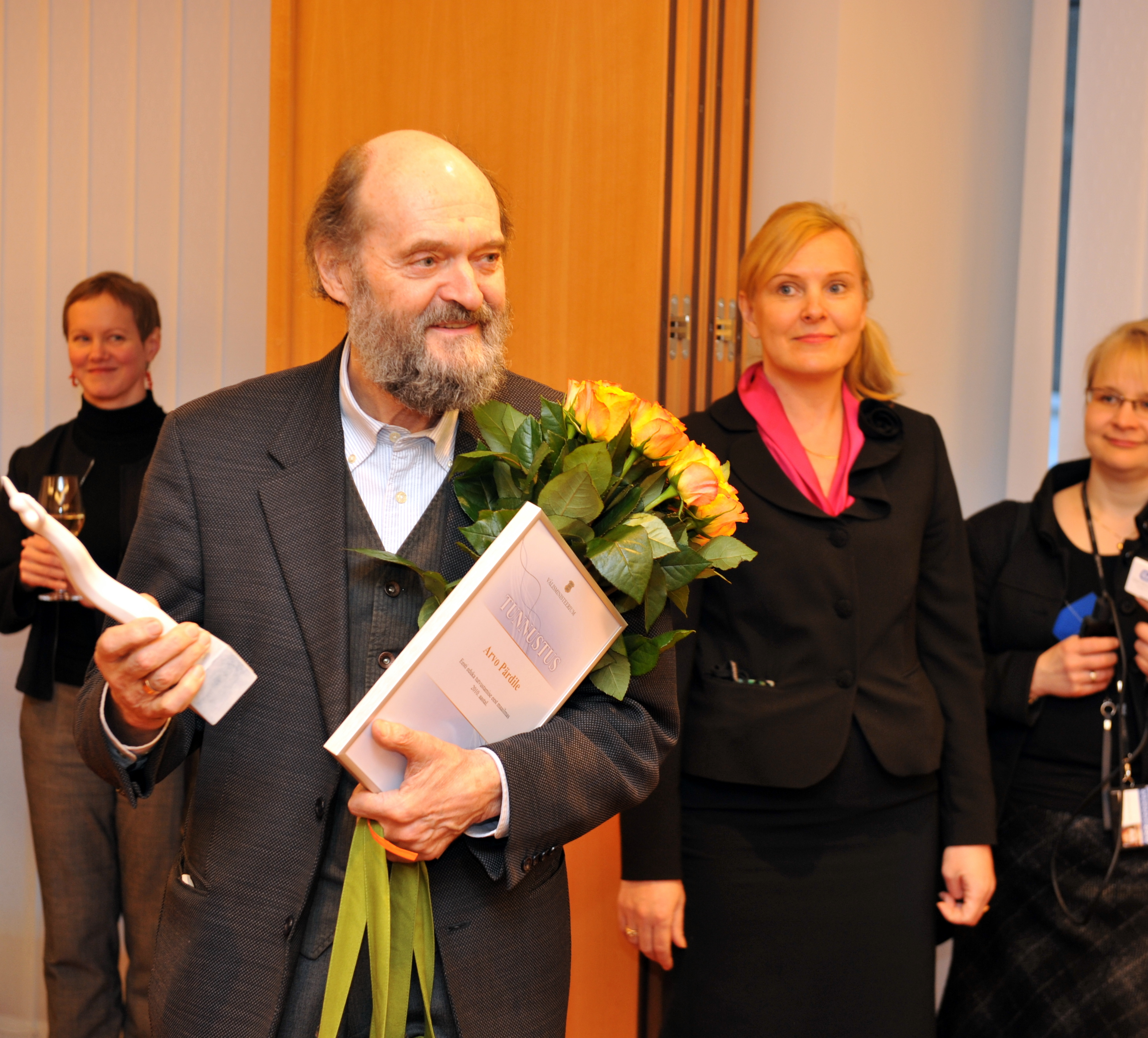 Composer Arvo Pärt